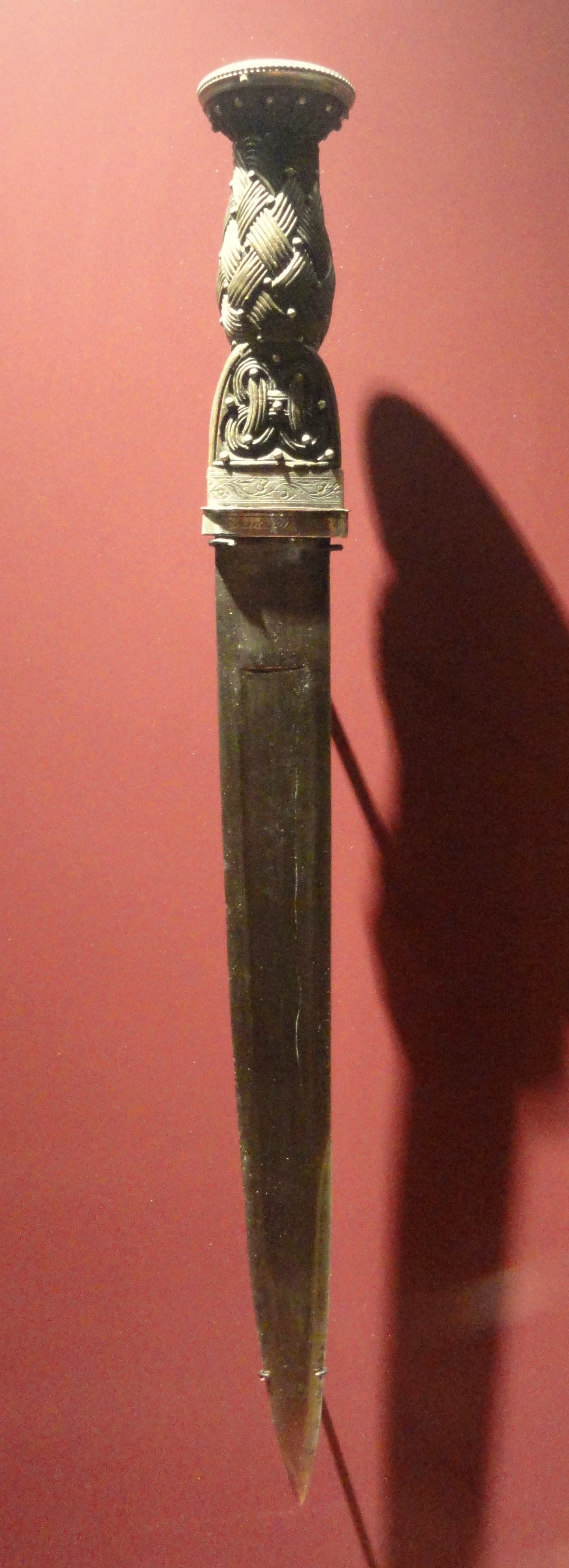 Exhibit in the Royal Ontario Museum, Toronto, Ontario, Canada. This exhibit is old enough so that it is in the public domain, and photography was permitted in the museum. I took this photograph and release it into the public domain.